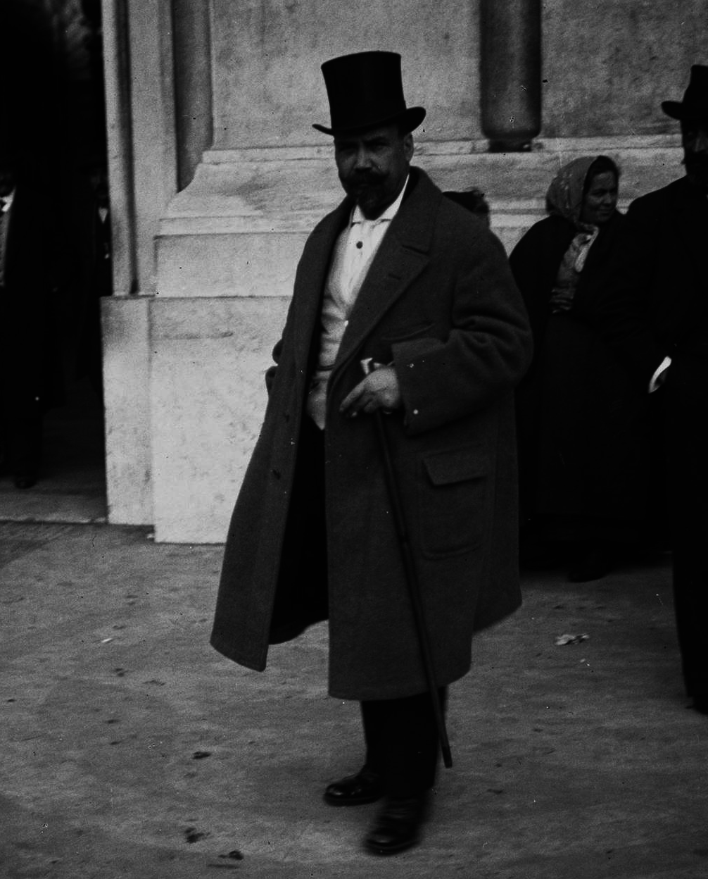 António Luís Gomes, cabinet minister of Portugal. 1911.